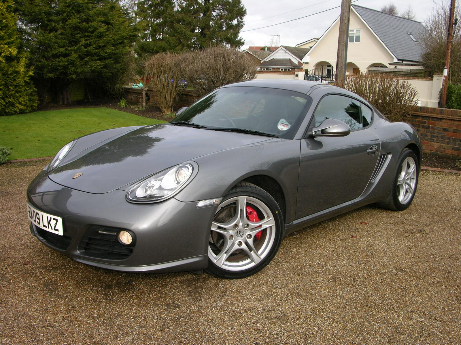 2009 Porsche Cayman S